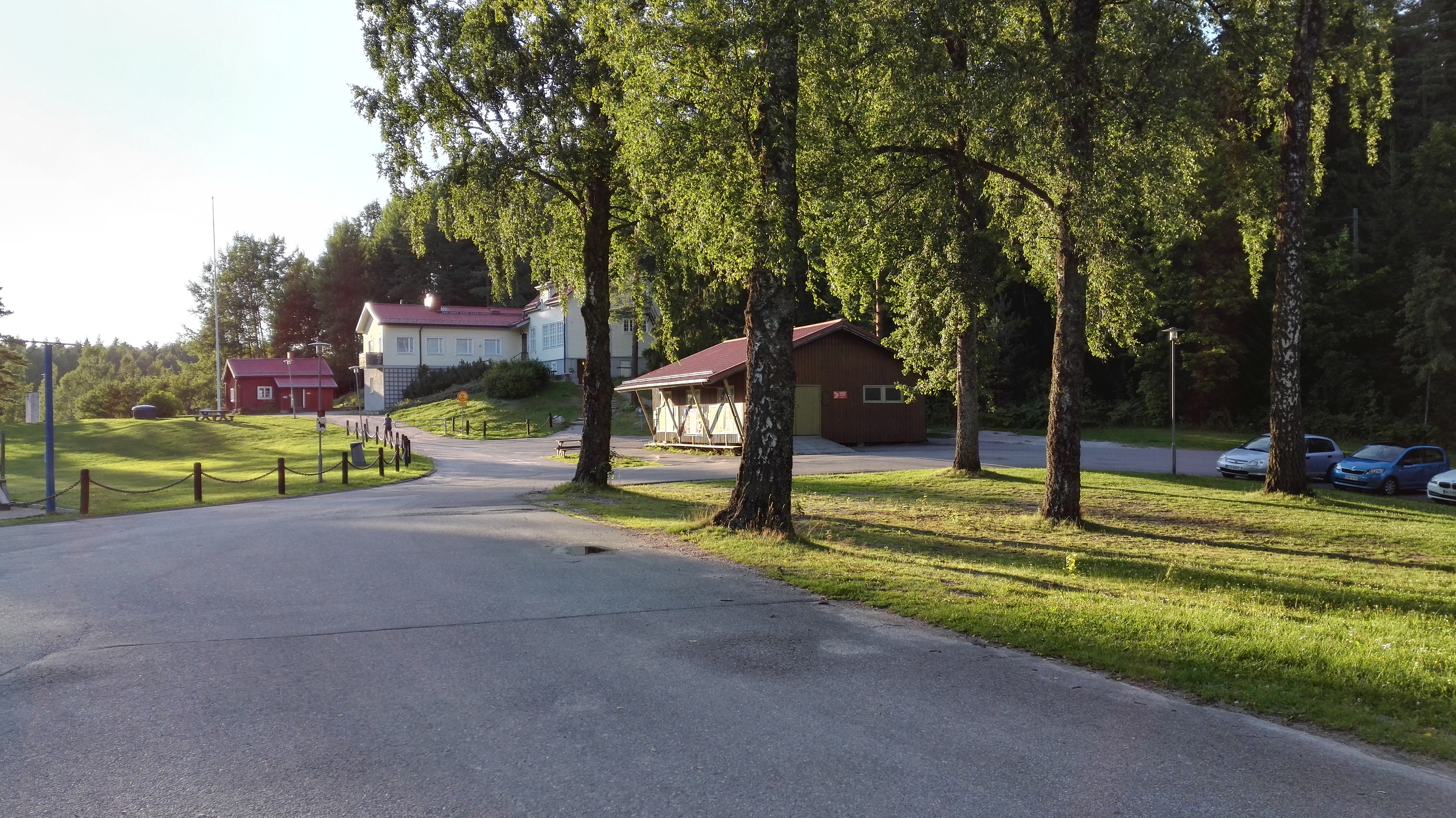 Pirttimäki recreation area, Espoo, Finland